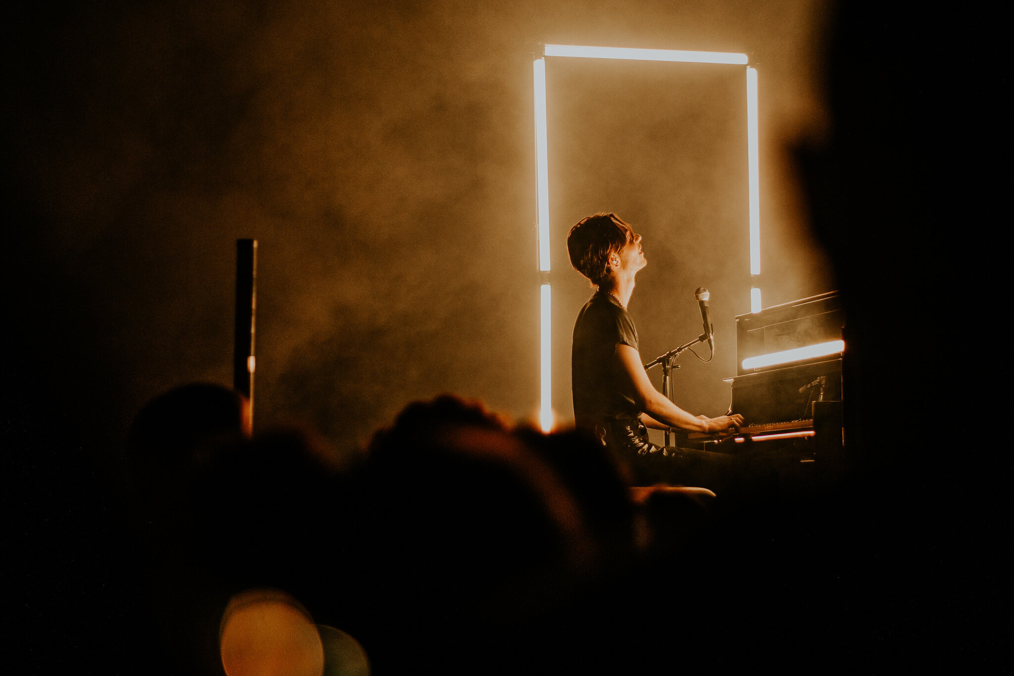 Greyson Chance Live